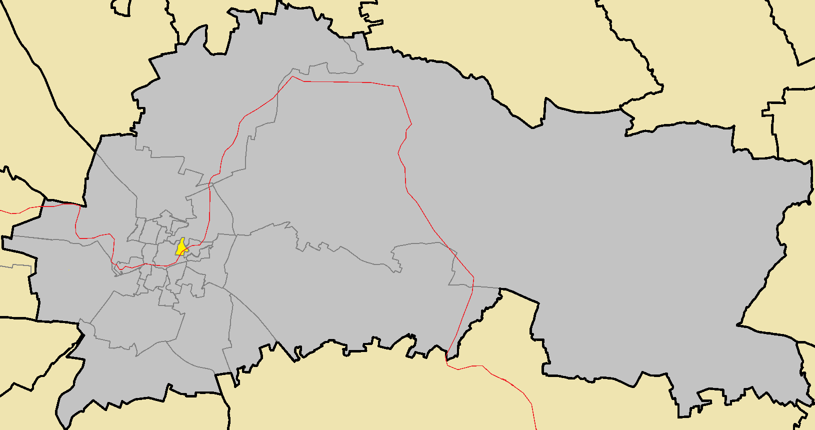 Haydar Pasha in Nicosia Municipality (de jure).